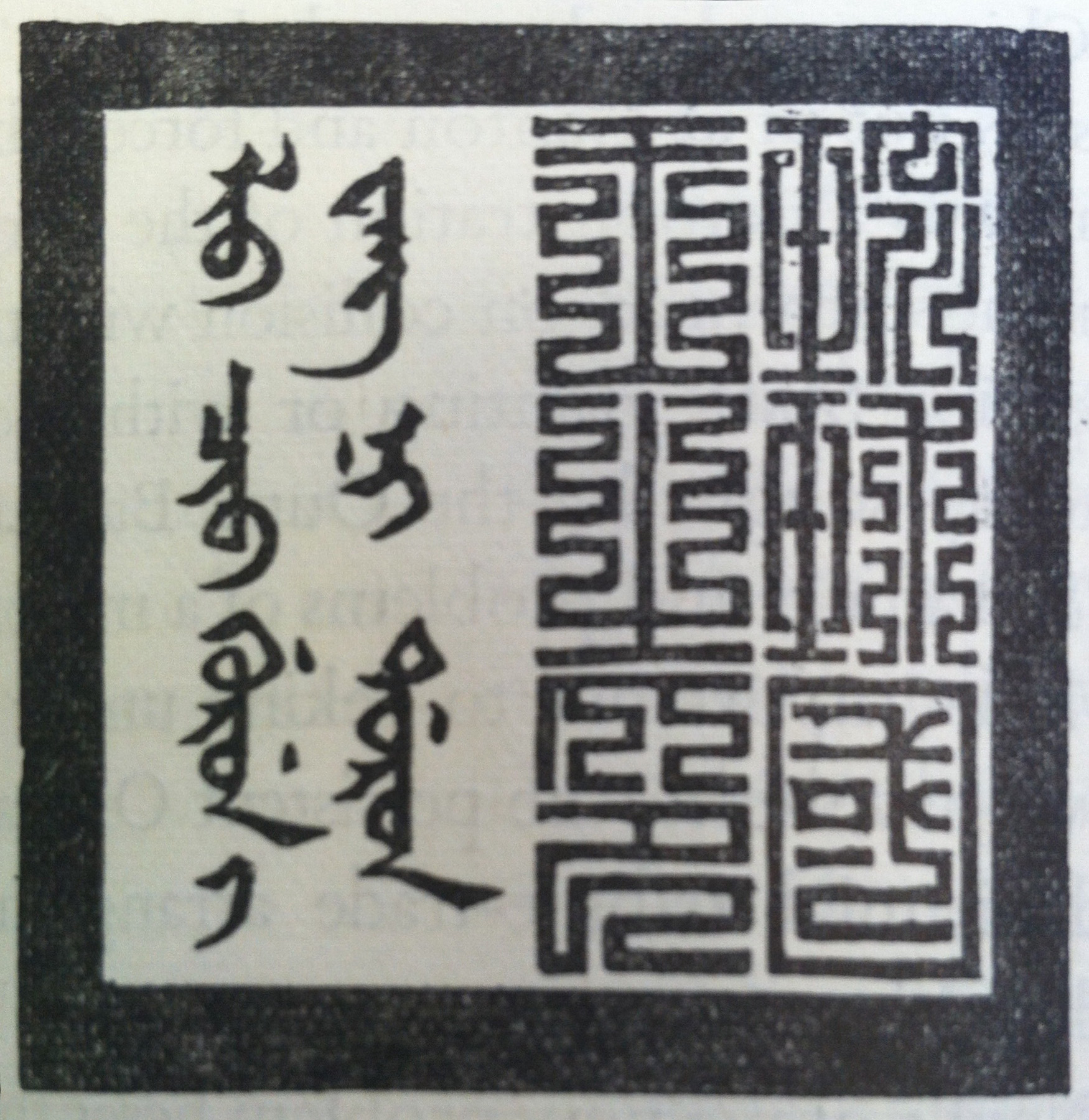 Seal from Qing China authorizing the rule of the Ryūkyūan King. THe left part is in Manchu, the right part in chinese script